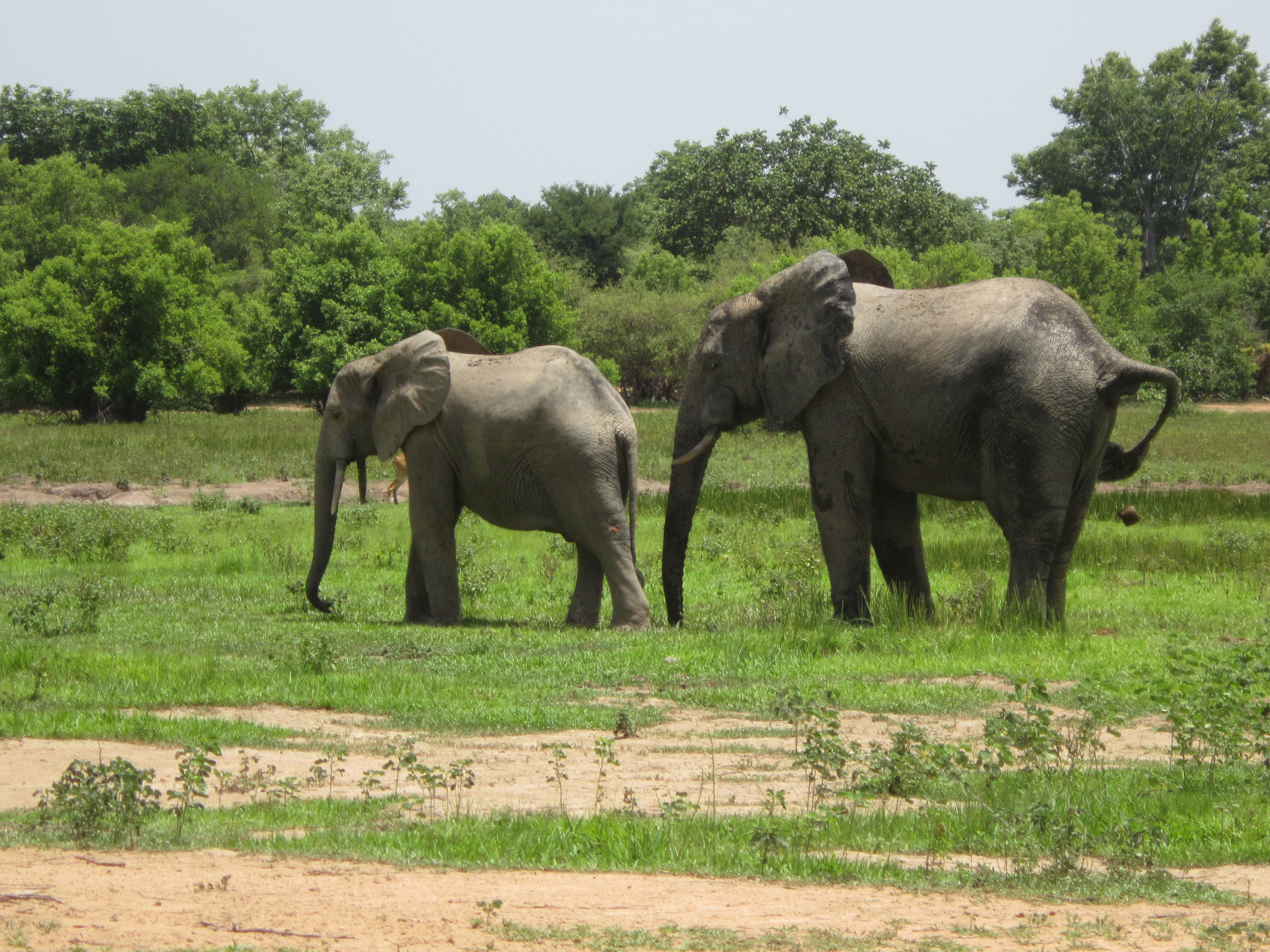 This shot was taken at the Mole National Park. The Mole National Park, located at the Northern region of Ghana is populated with elephants, antelopes, buffaloes, wild pigs, crocodiles, Lions, etc